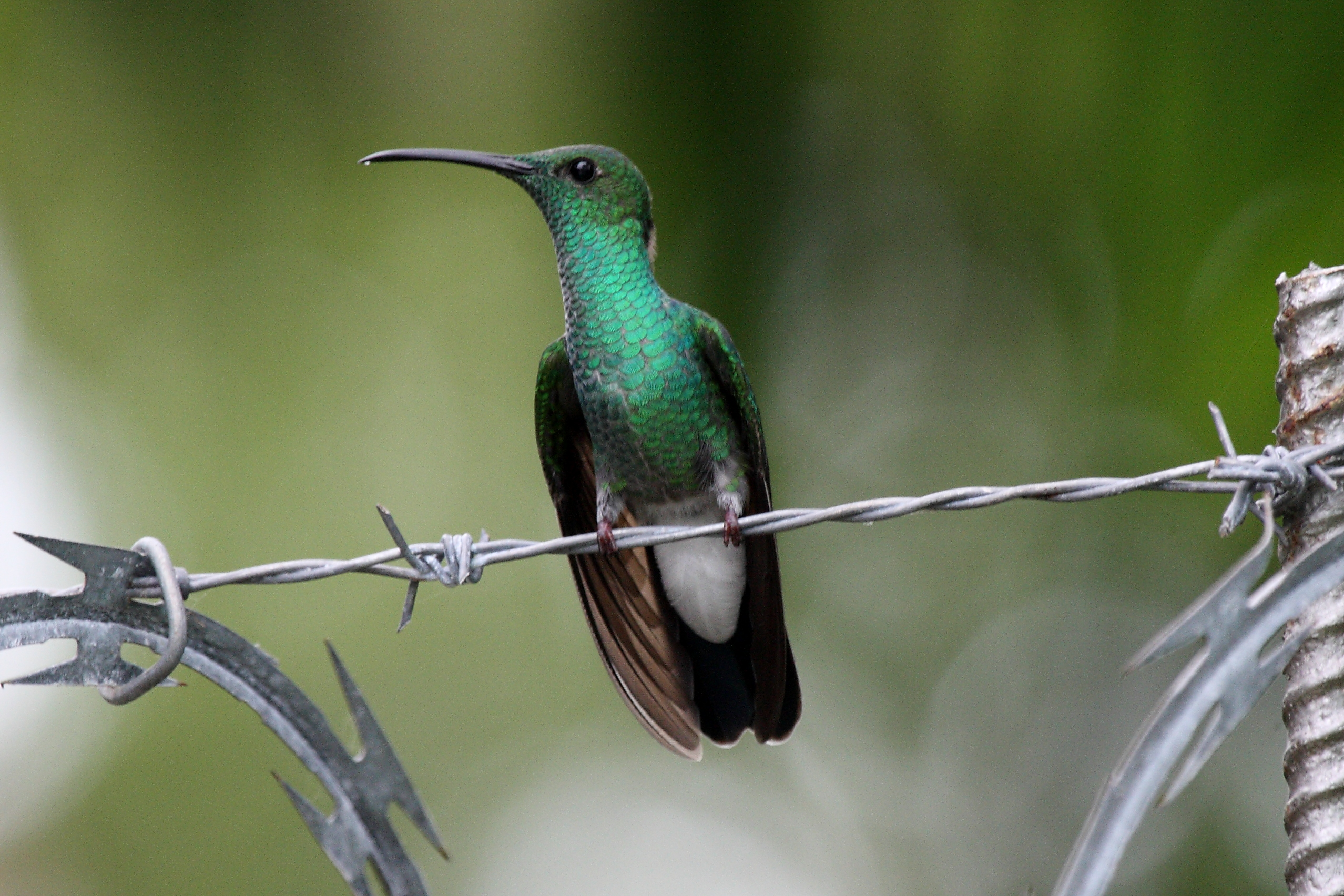 White-vented Plumeleteer (Chalybura buffonii). Taken in Panama.